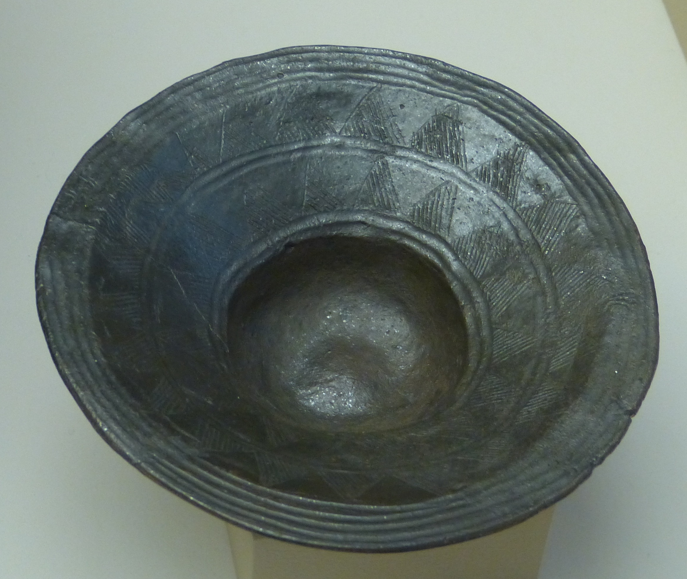 Straubing ( Lower Bavaria ). Gäubodenmuseum: Urnfield culture pottery from grave 6 in Straubing - Im Königreich.